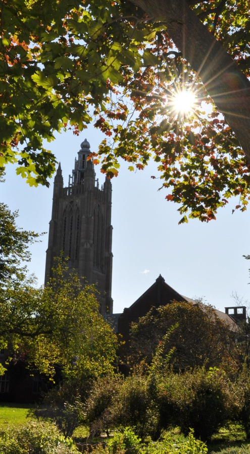 A view from afar of the Samuel Gridley Howe Building tower located at the heart of Perkins School for the Blind's 38-acre campus in Watertown, Mass.